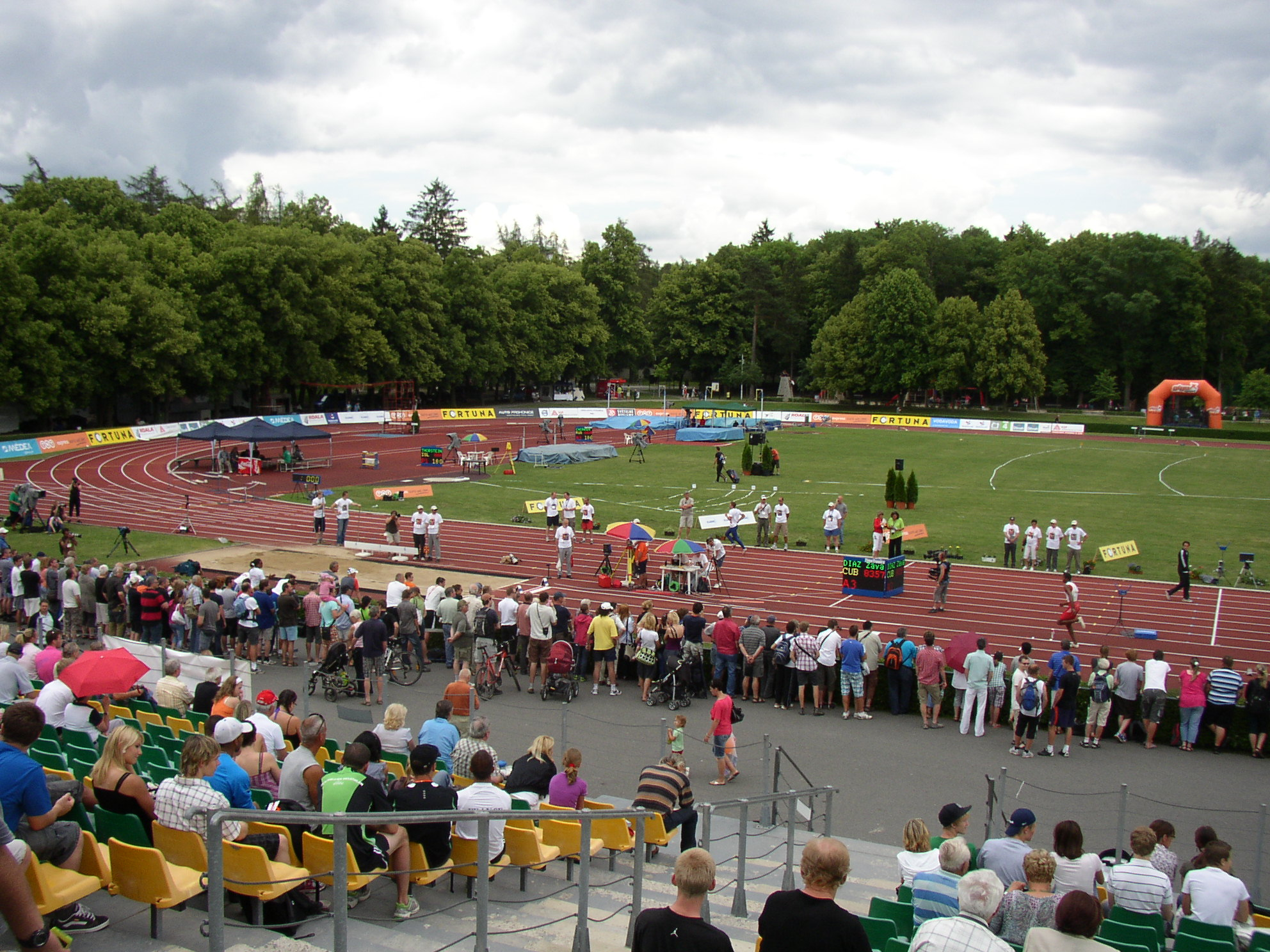 Athlete Yunior Díaz of Cuba on approach for his third attempt in long jump during men's decathlon at 5th edition of the TNT - Fortuna Meeting (IAAF World Combined Events Challenge Meeting, Sletiště Stadium, Kladno, Czech Republic, 15 June 2011, 13:37).